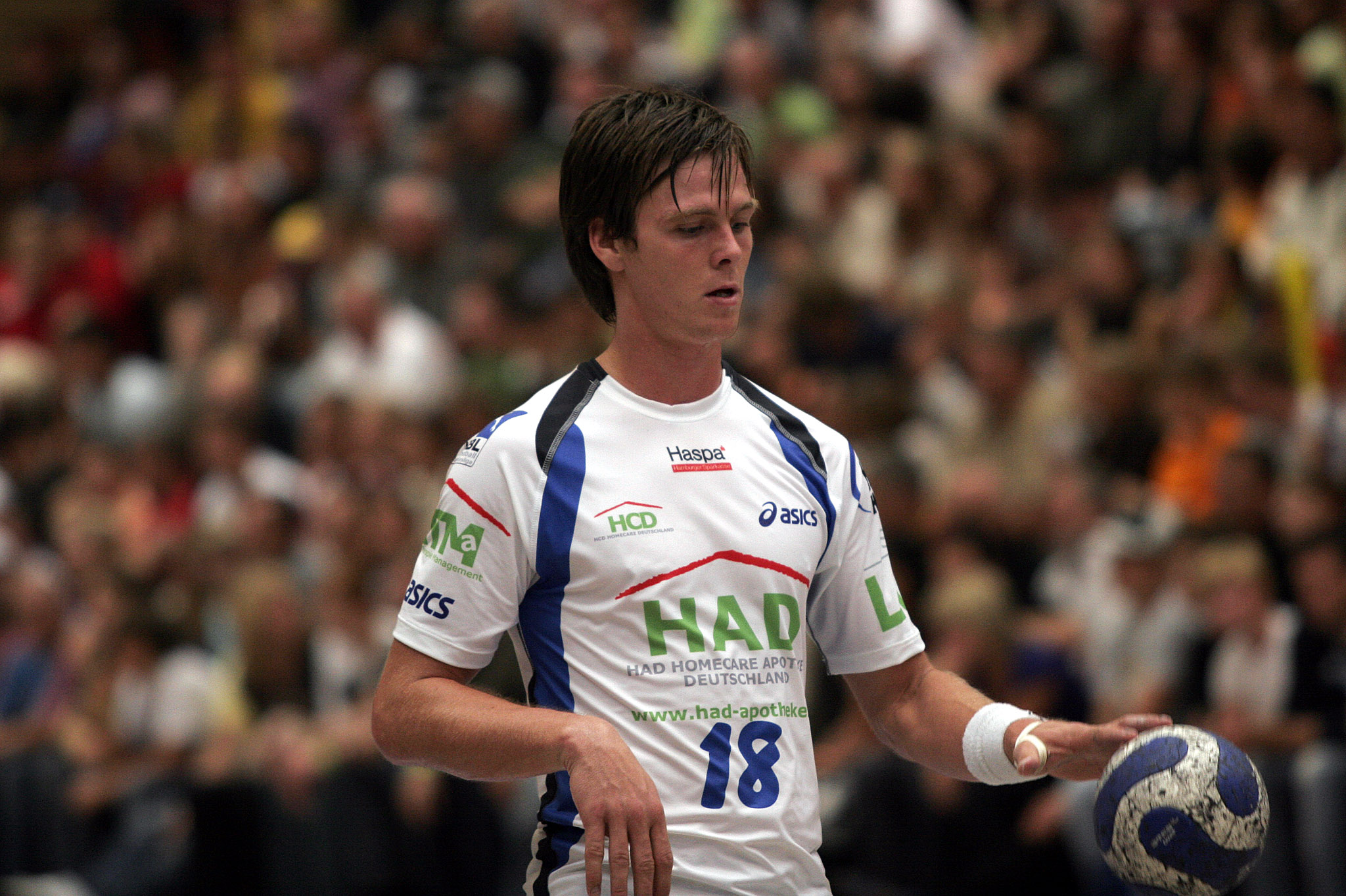 Hans Lindberg, Danish handball player from HSV Hamburg, during the Schlecker Cup 2007 in Ehingen (Germany)